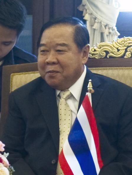 101122-N-5549O-079 BANGKOK, Thailand (Nov. 22, 2010) Secretary of the Navy (SECNAV) the Honorable Ray Mabus speaks with Thailand's Minister of Defense General Prawit Wongsuwon in Bangkok, Thailand. (U.S. Navy photo by Mass Communication Specialist 2nd Class Kevin S. O'Brien/Released)